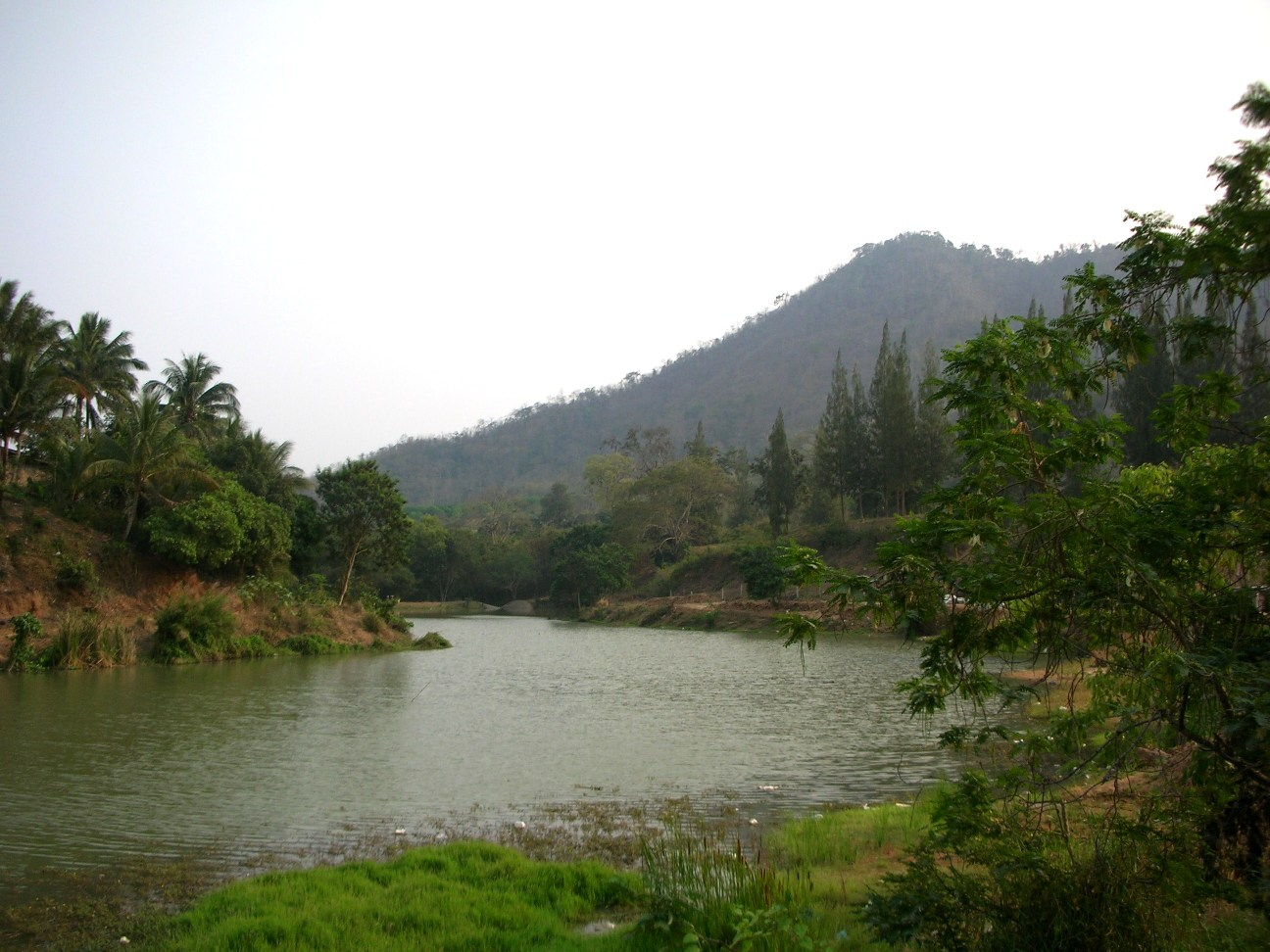 Lake by Dan Sing Khon border post.